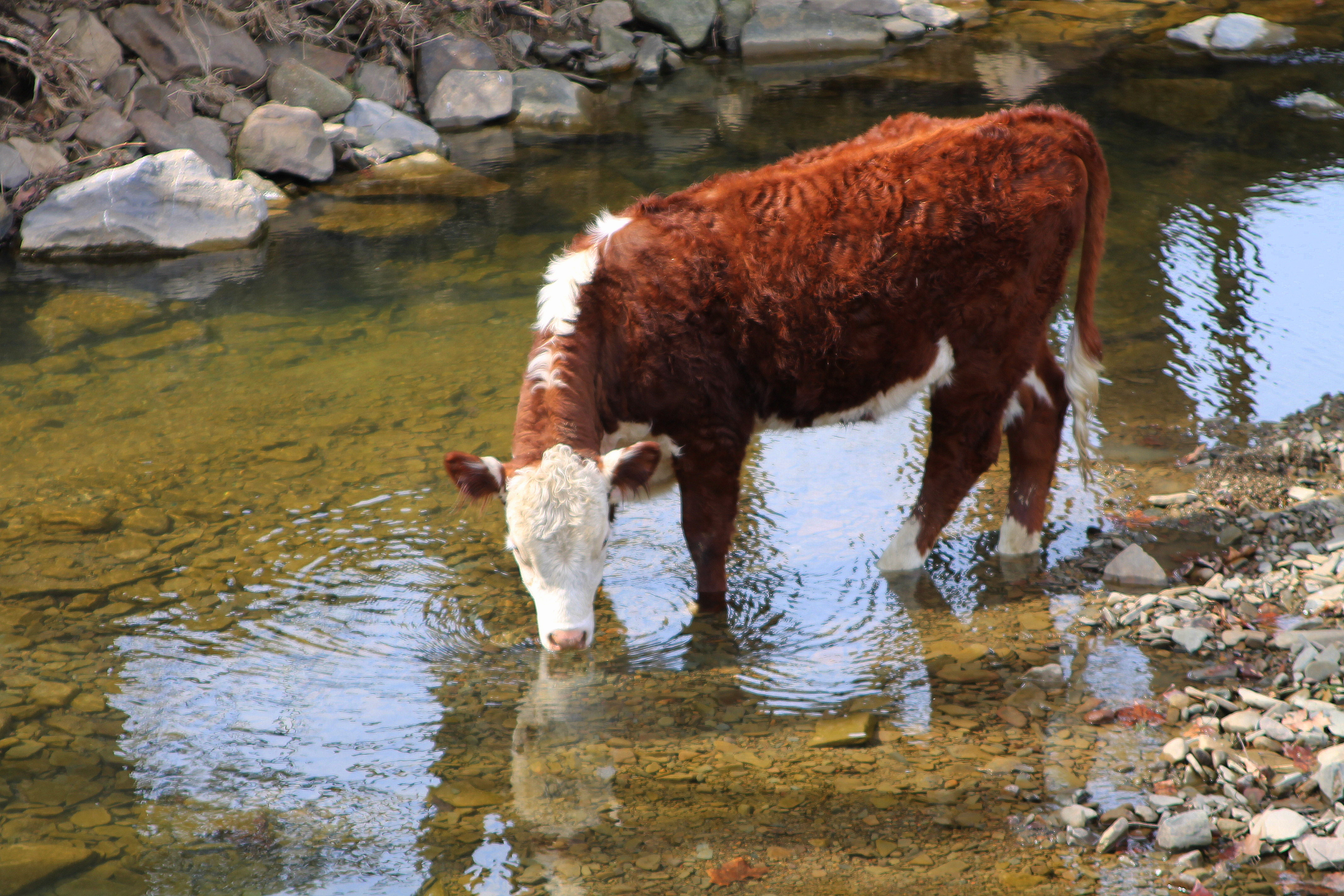 A cow in German Run, a tributary of Little Muncy Creek in Lycoming County, Pennsylvania.